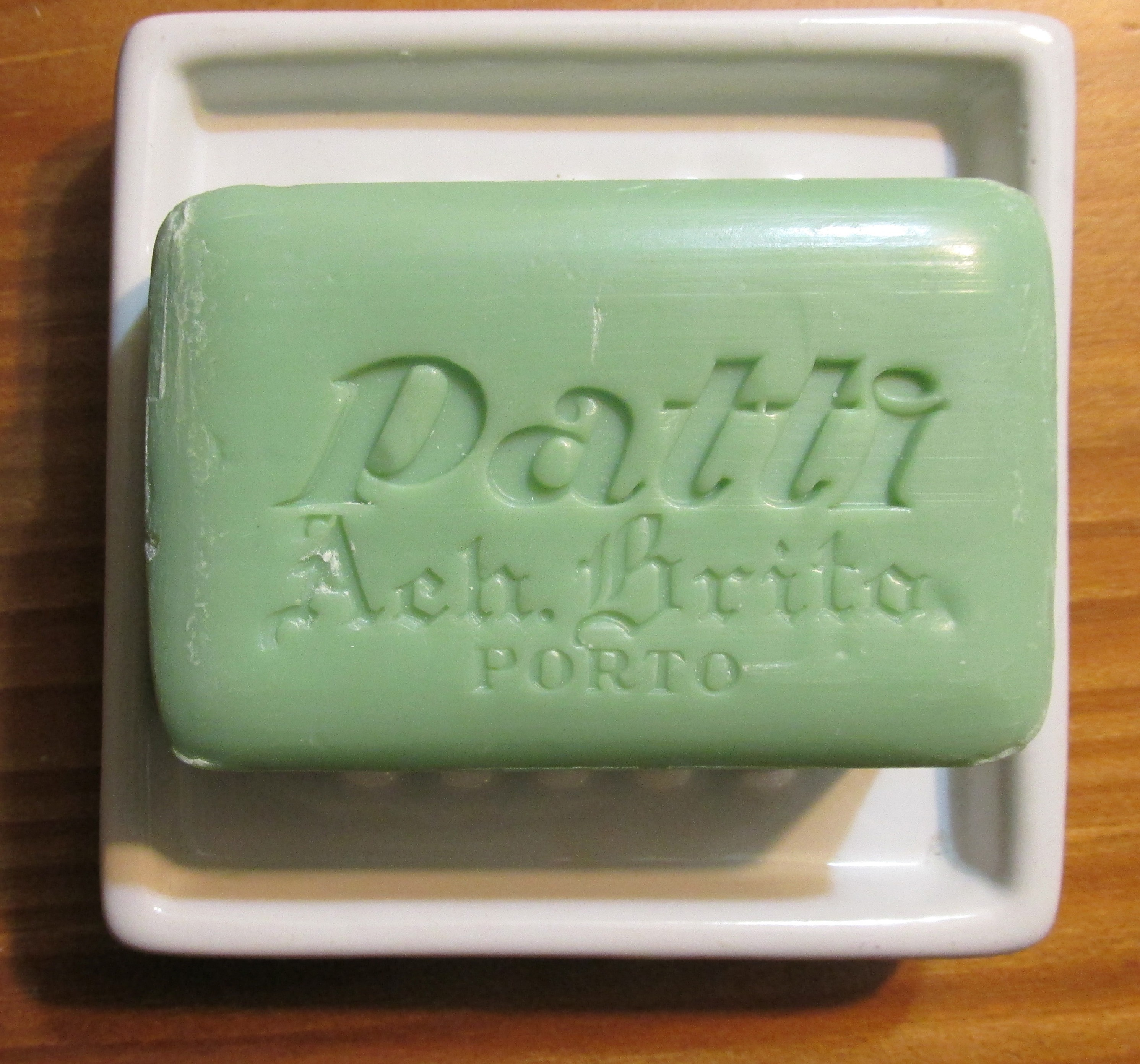 A bar of Patti soap in a soap dish, manufactured by Ach. Brito Cosmética, Porto, Portugal